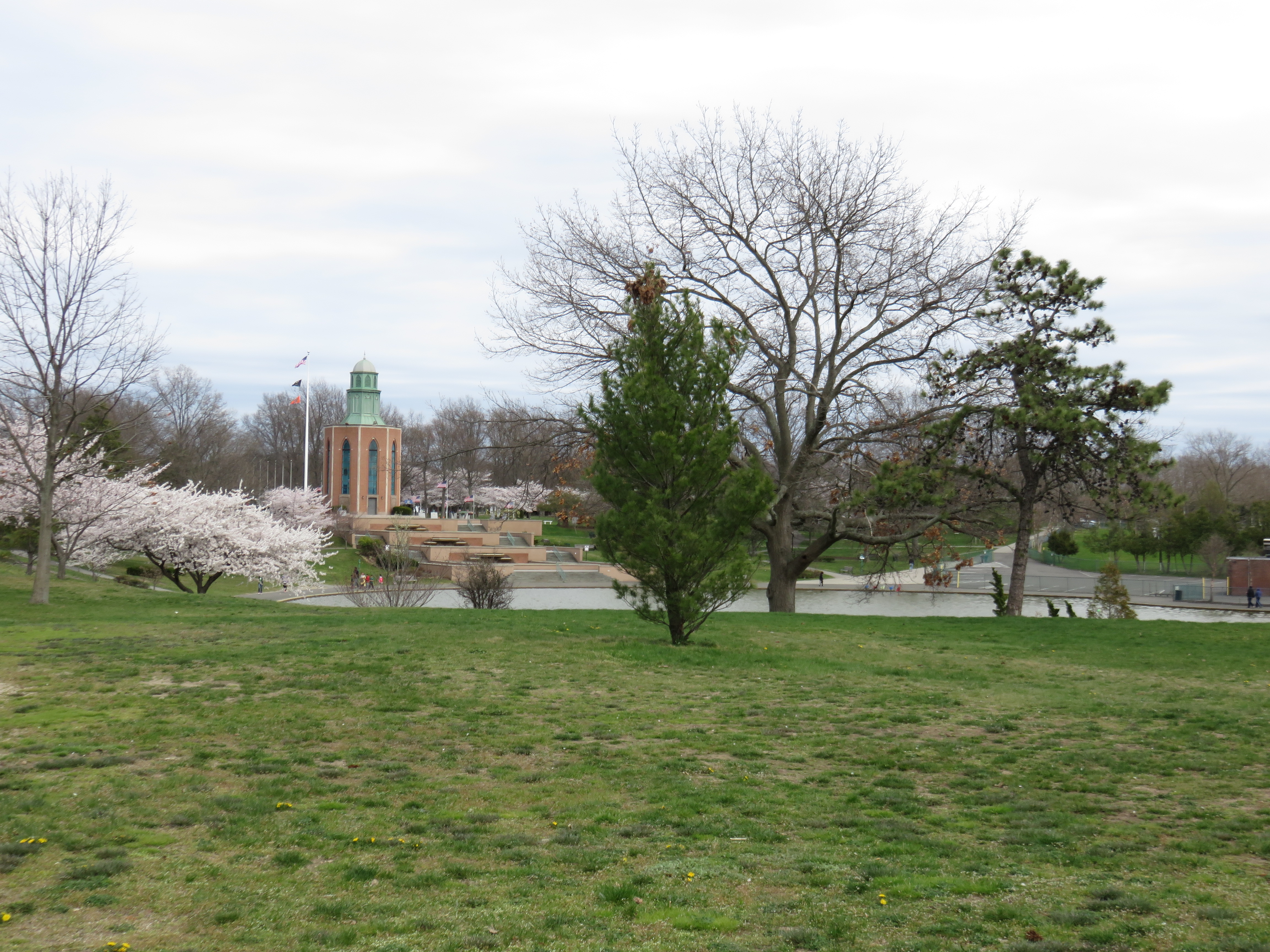 Veterans Memorial in Eisenhower Park in Nassau County, New York in 2017